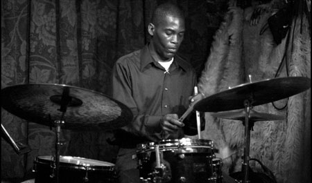 Robert Rucker at Smalls jazz club NYC